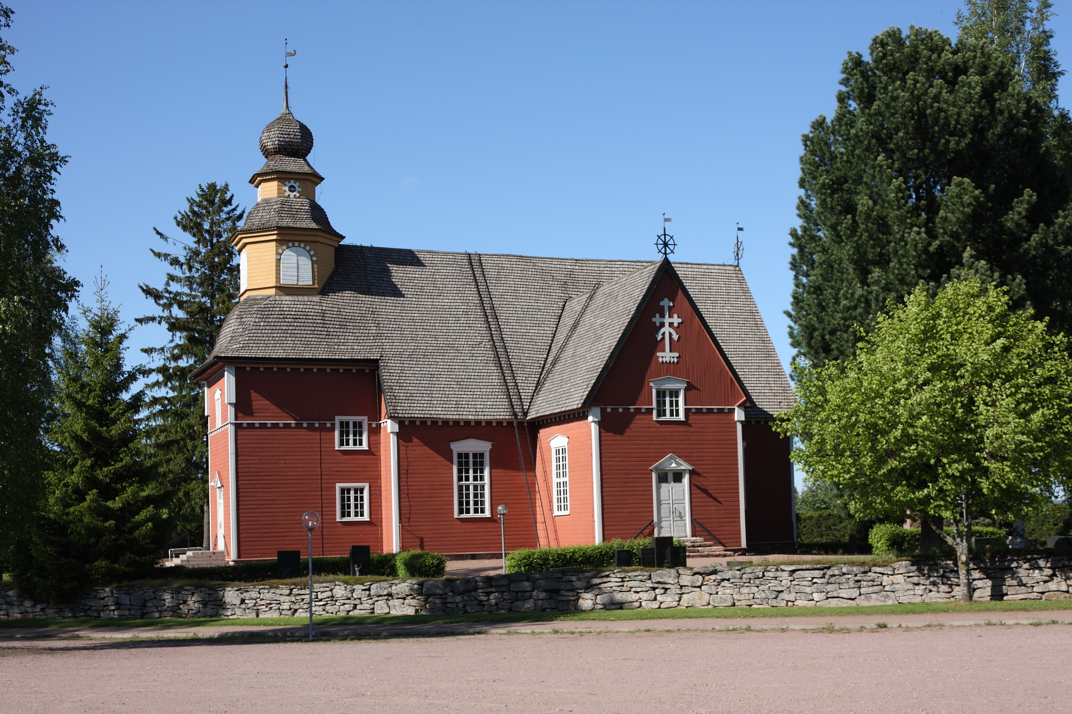 The church of Säkylä, Finland.